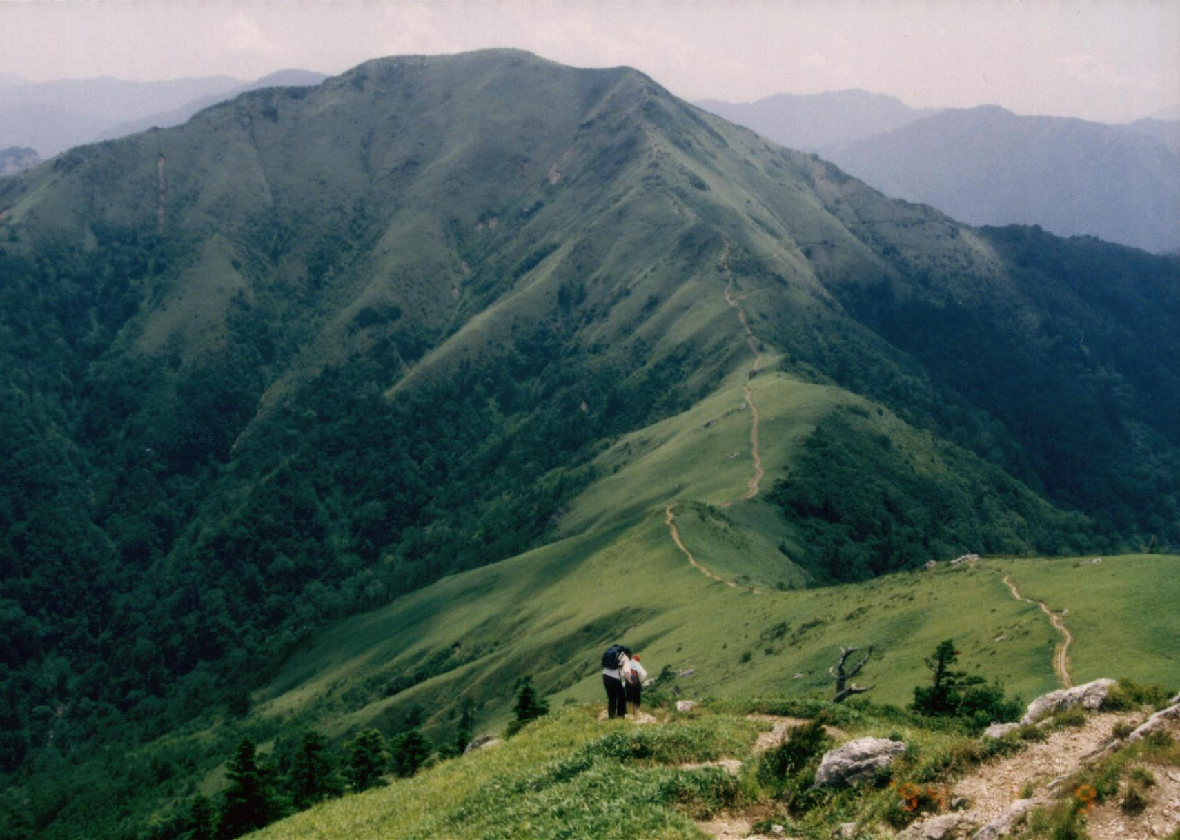 Mount Jirogyu as seen from the northeast. Taken from from Mount Tsurugi.